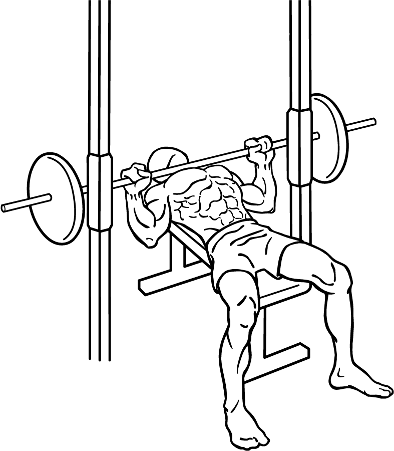 an exercise of chests